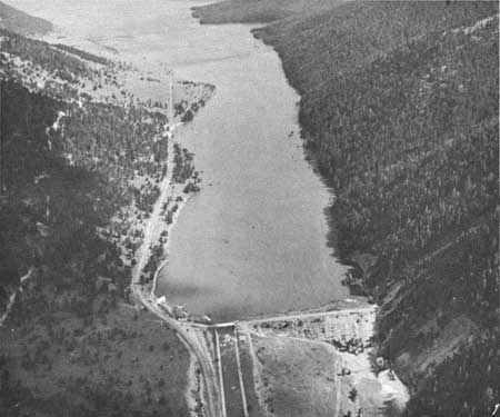 The damaged Hebgen Dam after the 1959 Yellowstone earthquake.